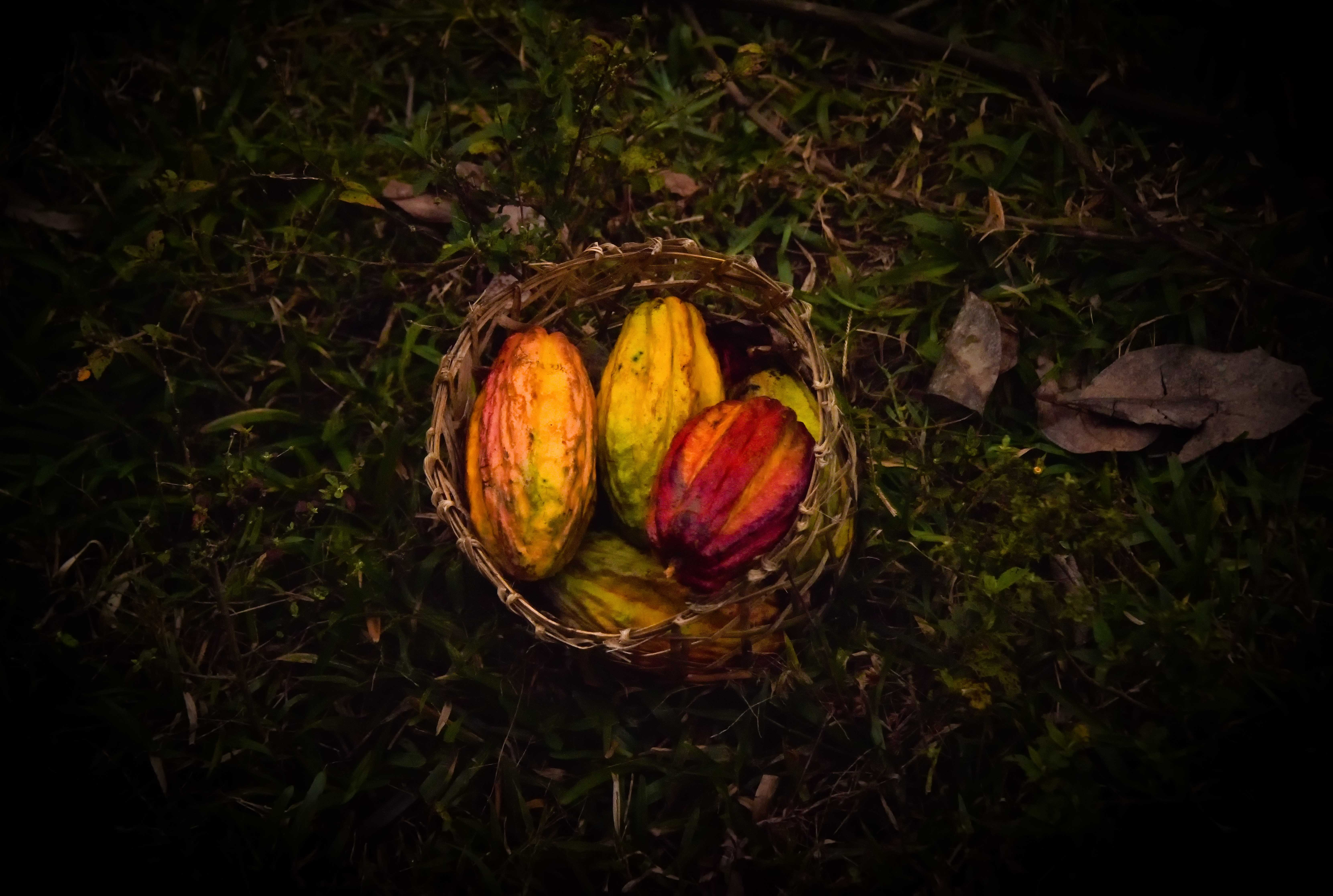 Madagascar